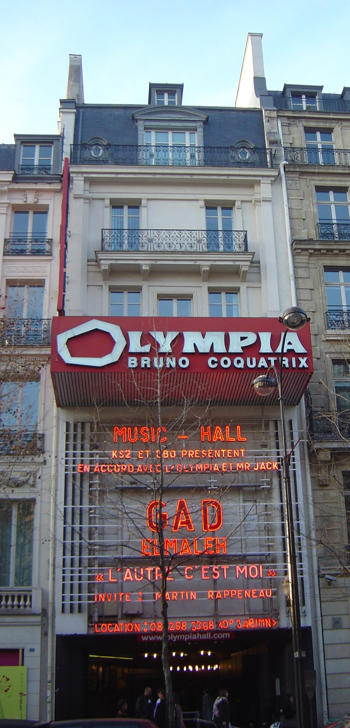 Paris Olympia, music hall photo by myself, March 19, 2005 (cropped)